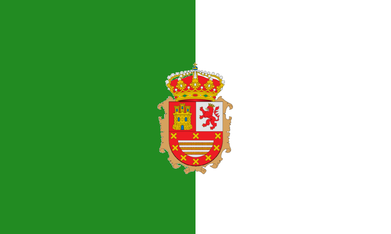 Flag of Fuerteventura, Spain with coat of arms Vectoriced from: Image: Flag of Fuerteventura.svg and Image:Escudo de Fuenteventura.png Source